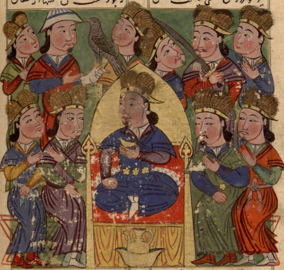 Geikhatu's enthronement